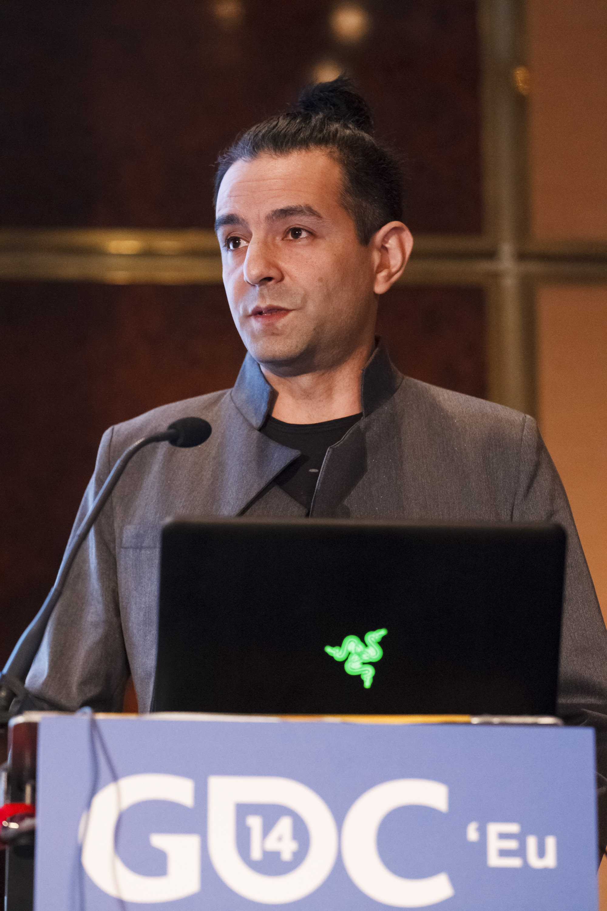 Photo of Tameem Antoniades at GDC 2014